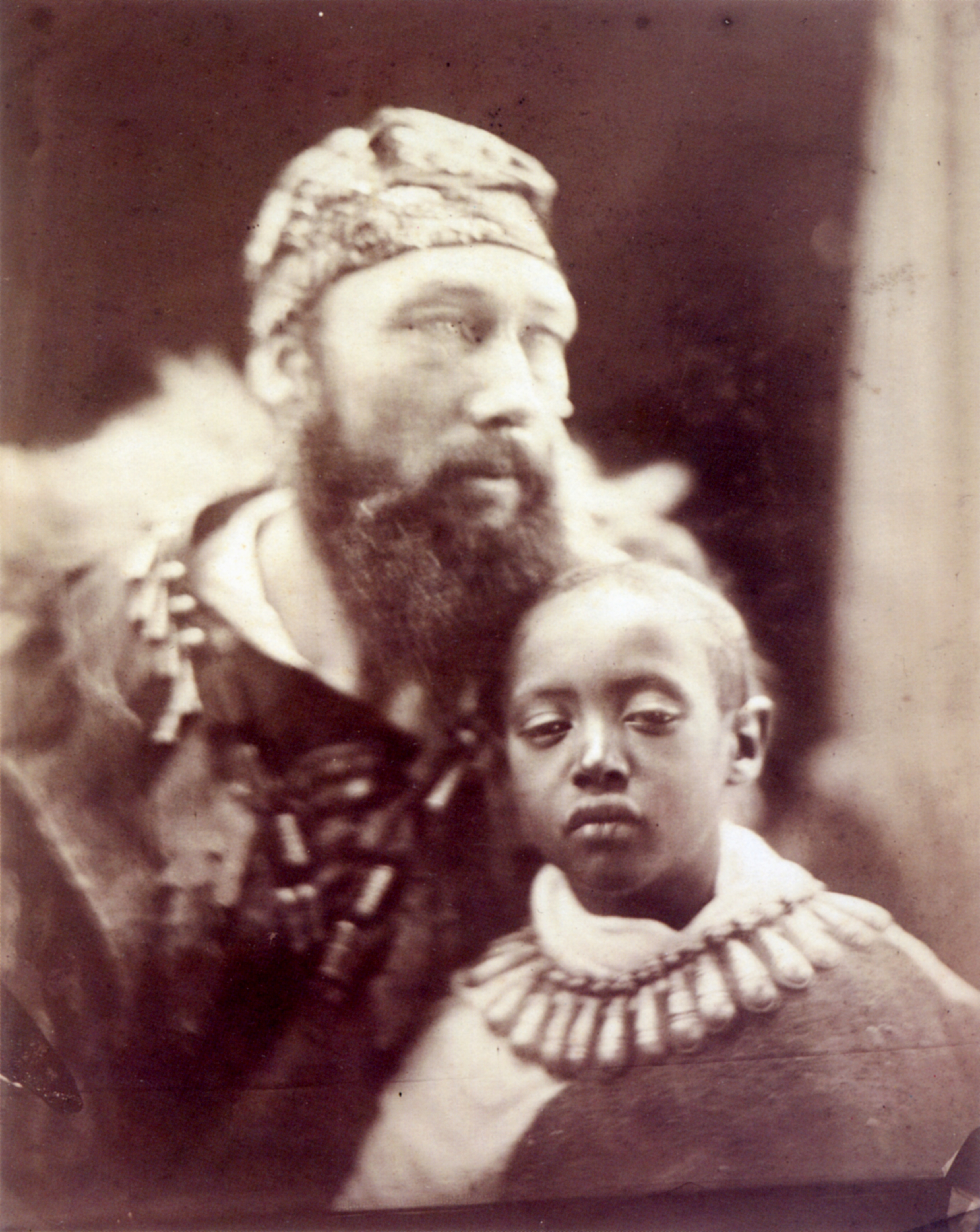 Déjatch Alámayou and and Báshá Félika. Son and heir of King Theodore of Abyssinia and Captain Tristram Speedy. Albumen print, 357 x 276mm (13 3/4 x 10 7/8")